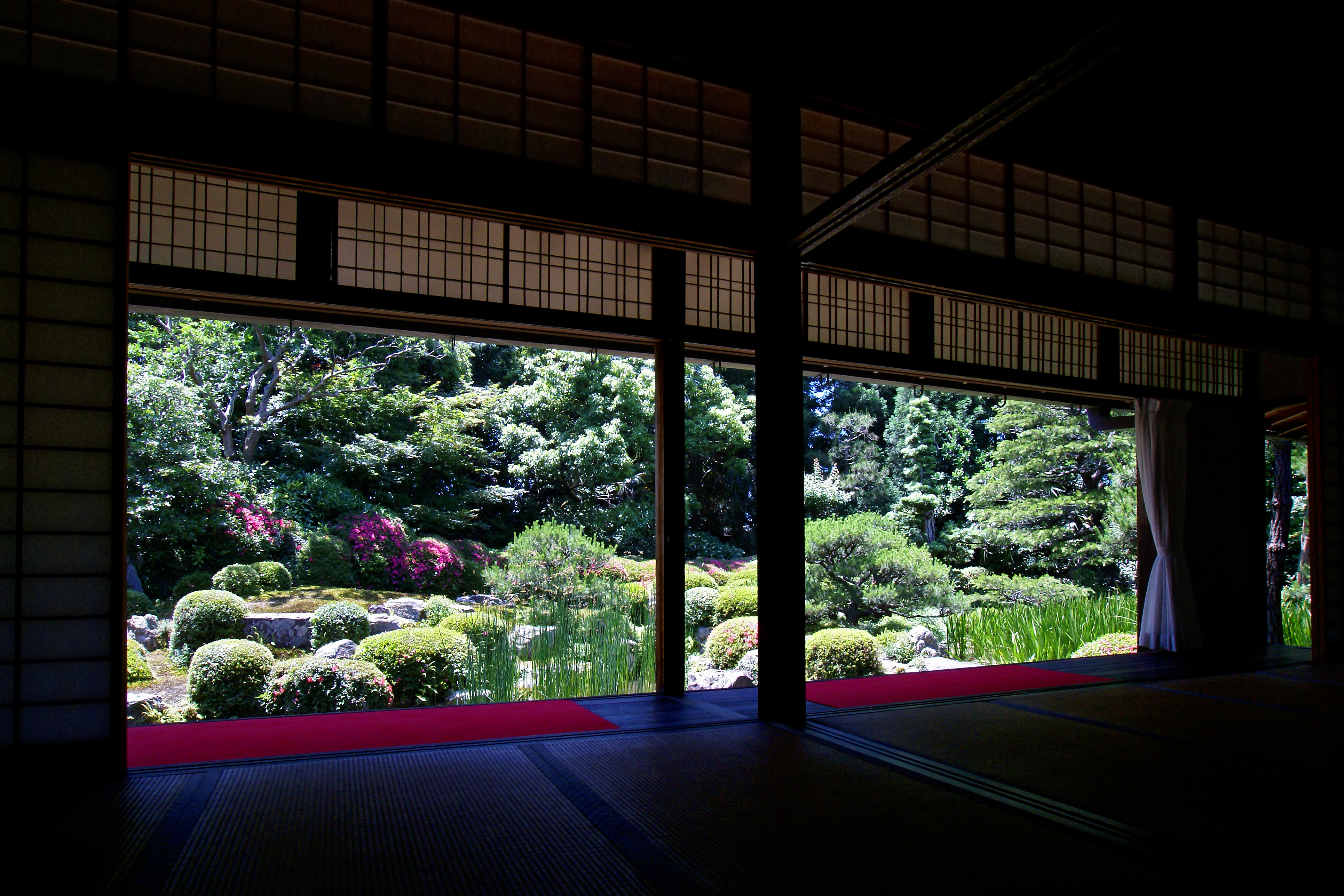 Anao-ji in Kameoka, Kyoto prefecture, Japan